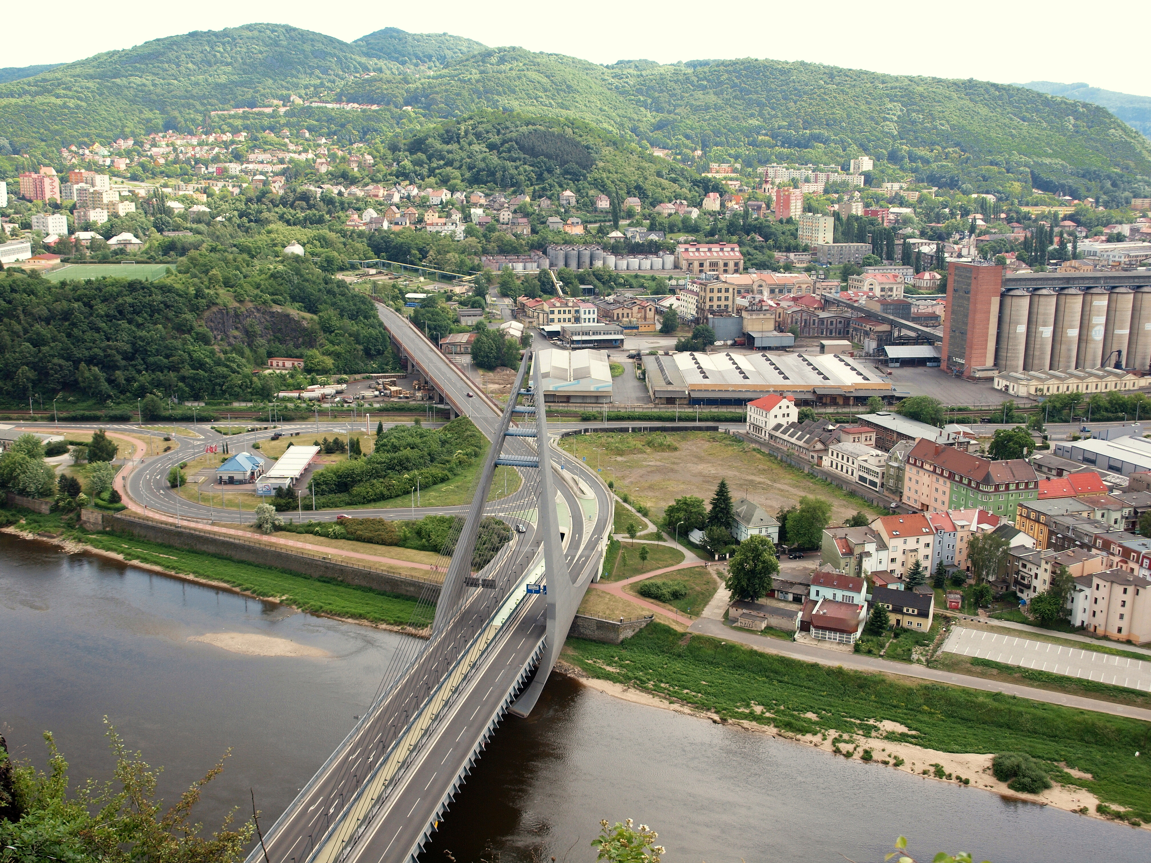 Marian Bridge